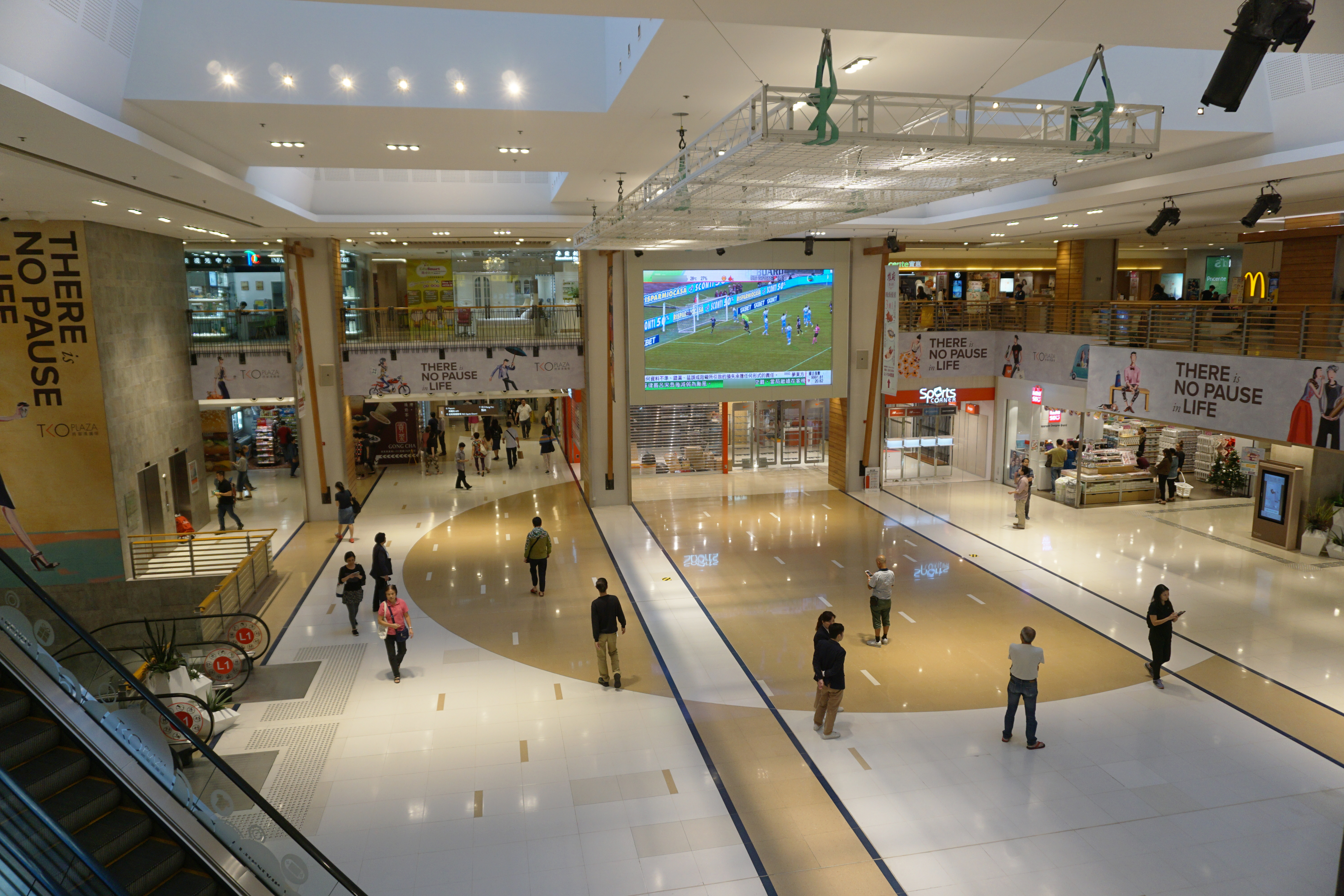 Tseung Kwan O Plaza in Tseung Kwan O, Hong Kong.